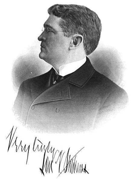 Illustration of former Missouri governor Lon Vest Stephens